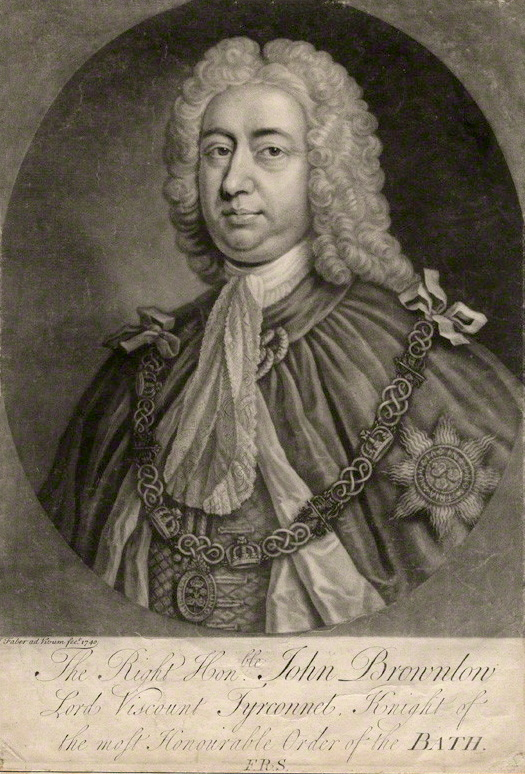 John Brownlow, 1st Viscount Tyrconnel (1690-1754)